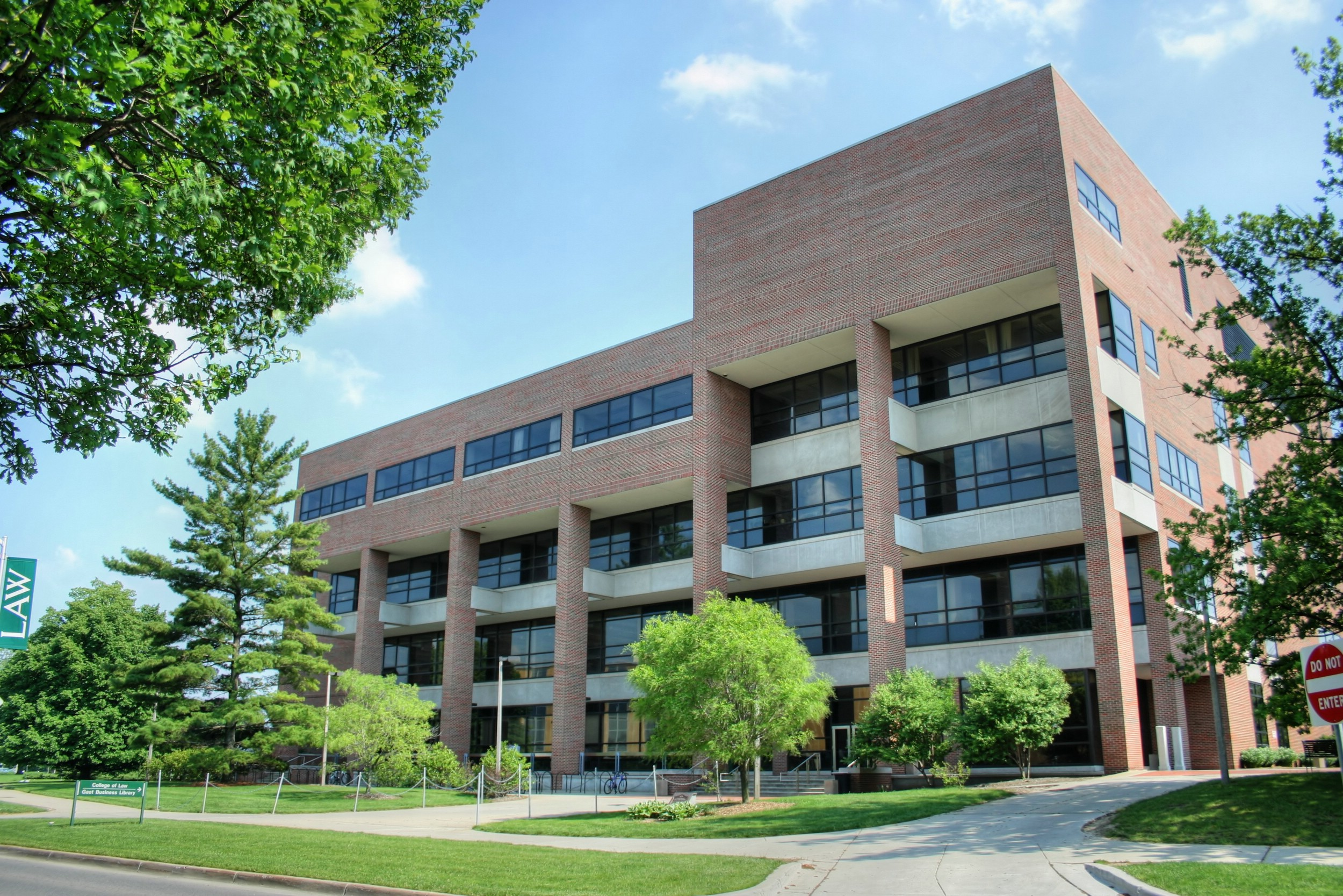 A photograph of the Law School Building located on the Michigan State University campus in East Lansing, Michigan. This photograph is one of a series taken for Wikipedia by the submitter on May 28th, 2006 between the hours of 3pm and 6pm.